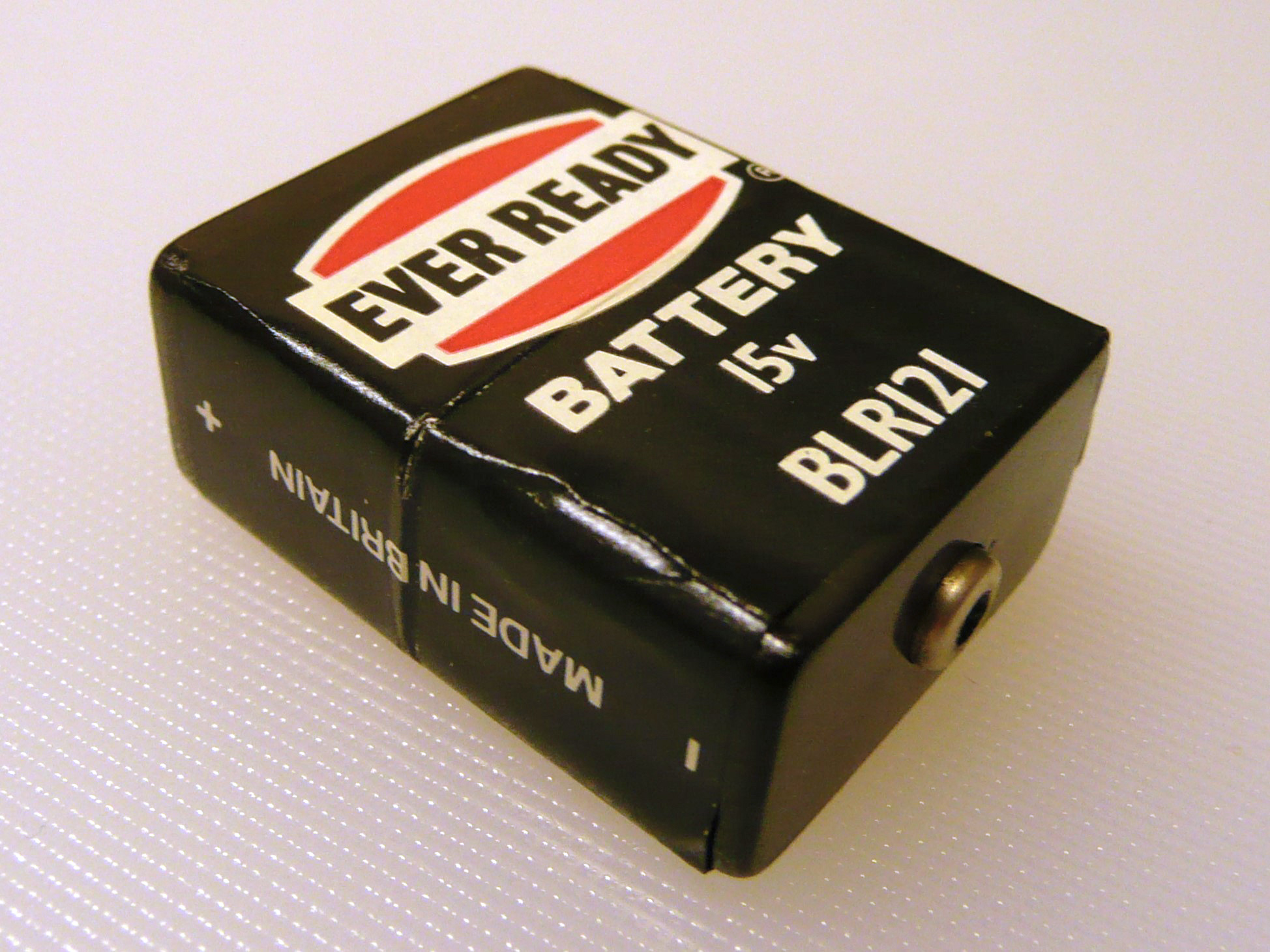 Ever Ready BLR121 15 V battery used in the Avometer